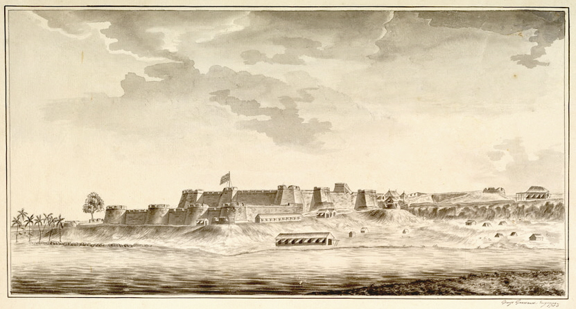 A pen and ink drawing with graywash of Mangalore fort after it was taken by the British in 1783. The artist was seated on the sandy bank across the river. Uploaded by Fowler&fowler«Talk» 23:01, 4 October 2009 (UTC)